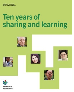 Cover of "Ten Years of Sharing and Learning", Wikipedia Foundation 2012 - 13 Annual Report Licensing Cover design Images